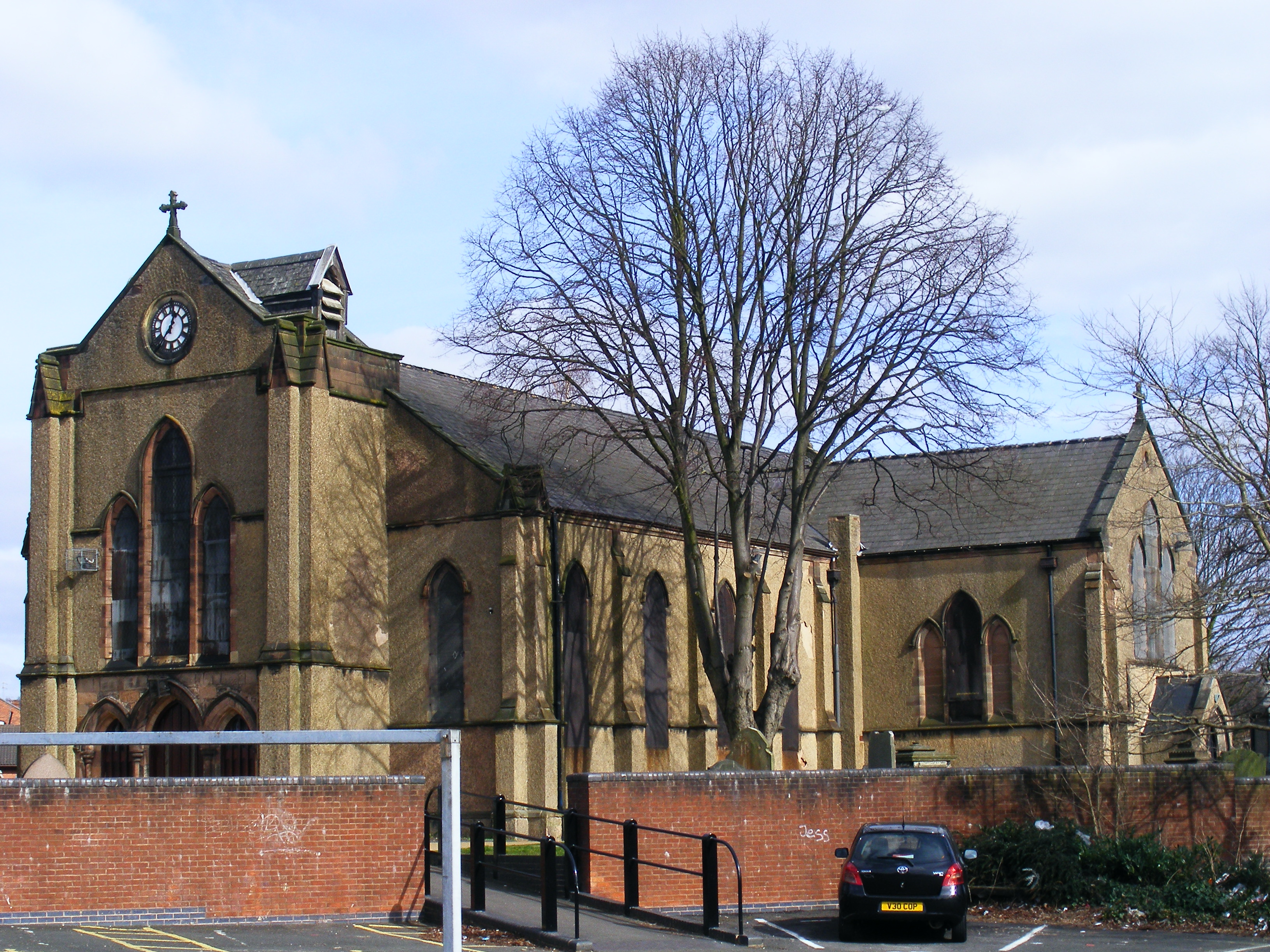 Cradley Heath Anglican Church, St Lukes. This stands at the "Four Ways" road junction of Corngreaves Road and the High Street.